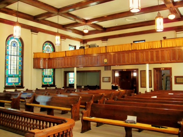 An interior photo of Lincoln Park United Methodist Church.